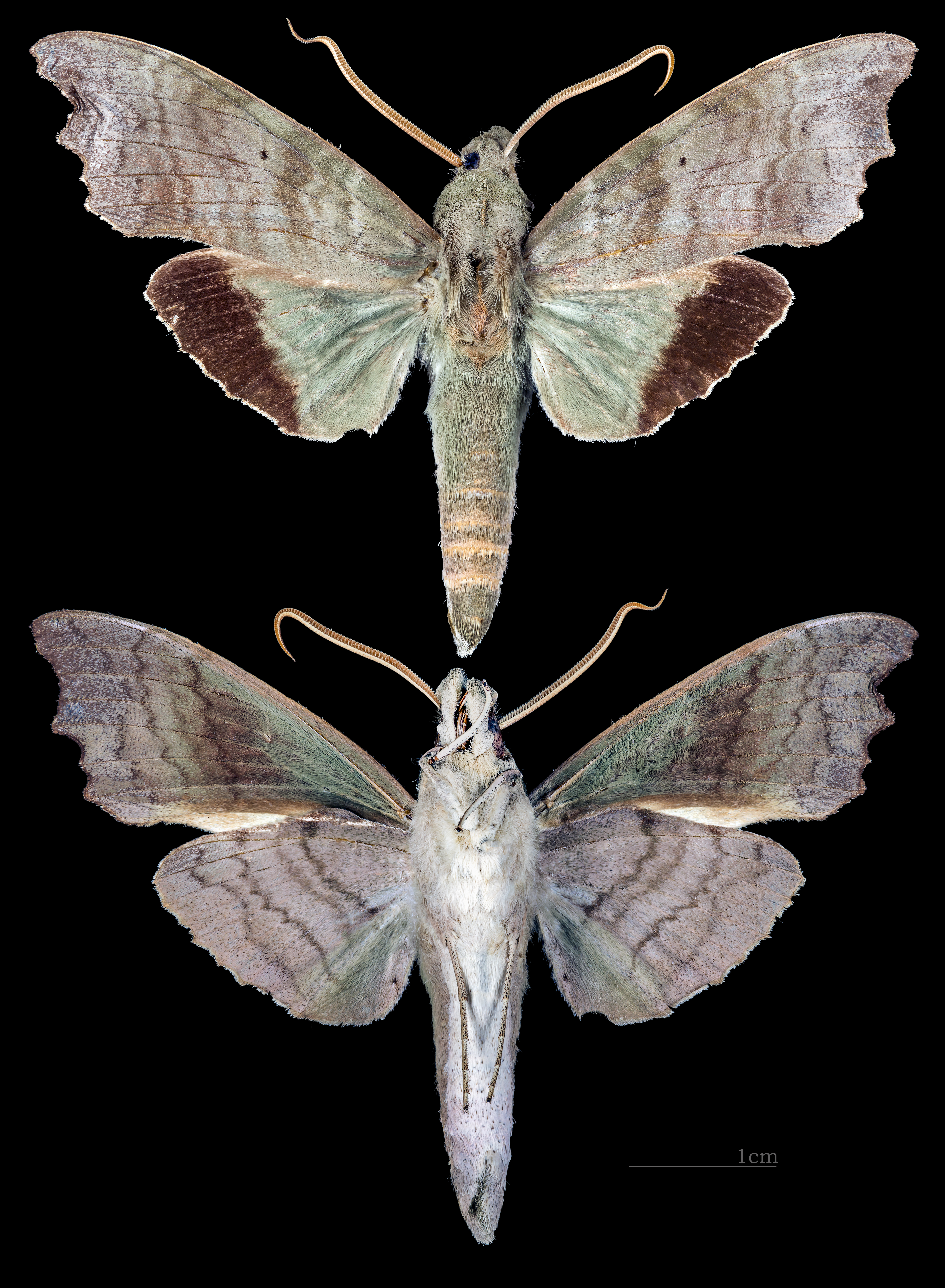 Aleuron chloroptera - Two views of same specimen